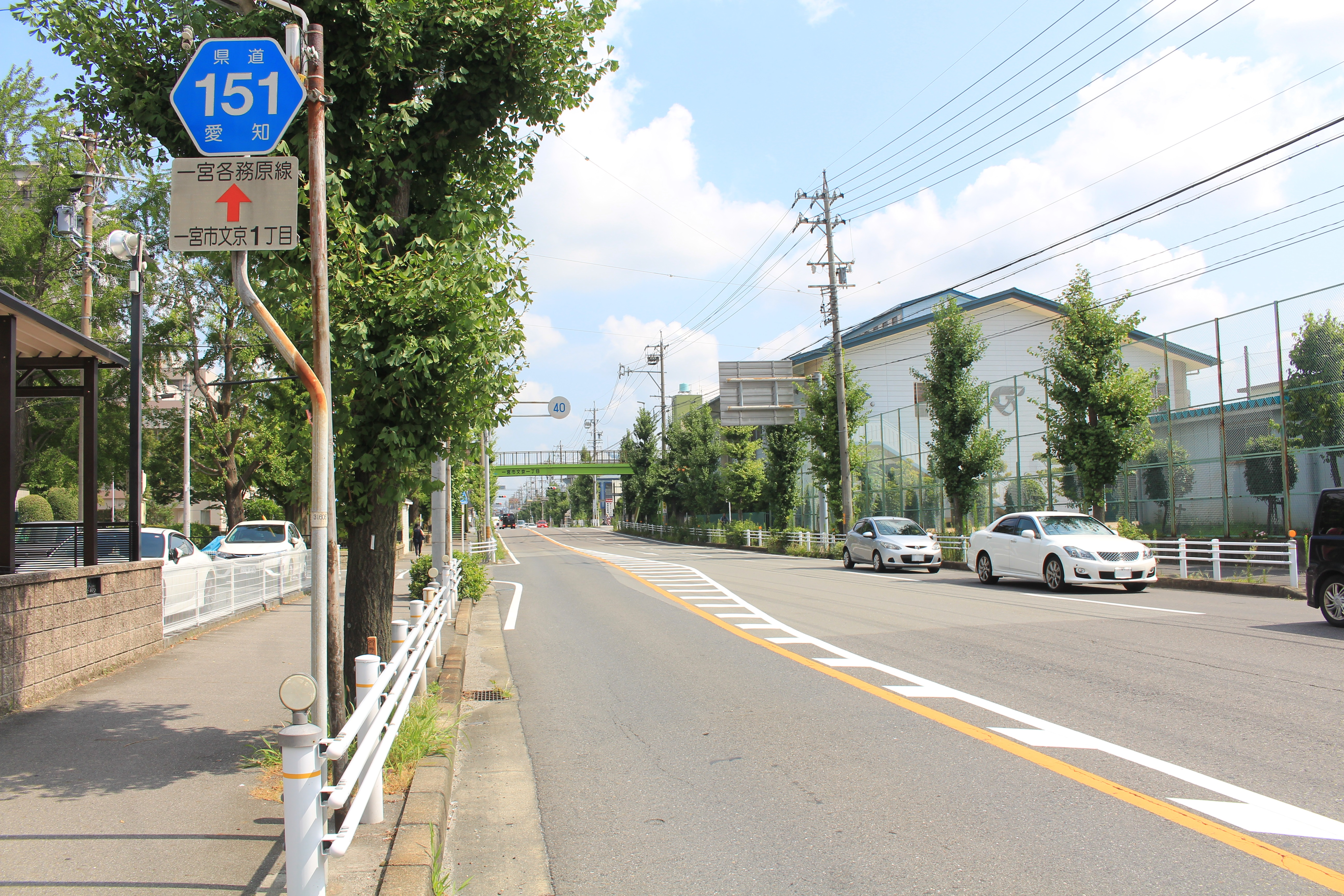 Aichi Prefectural Road Route 151 in Bunkyo, Ichinomiya, Aichi prefecture, Japan.